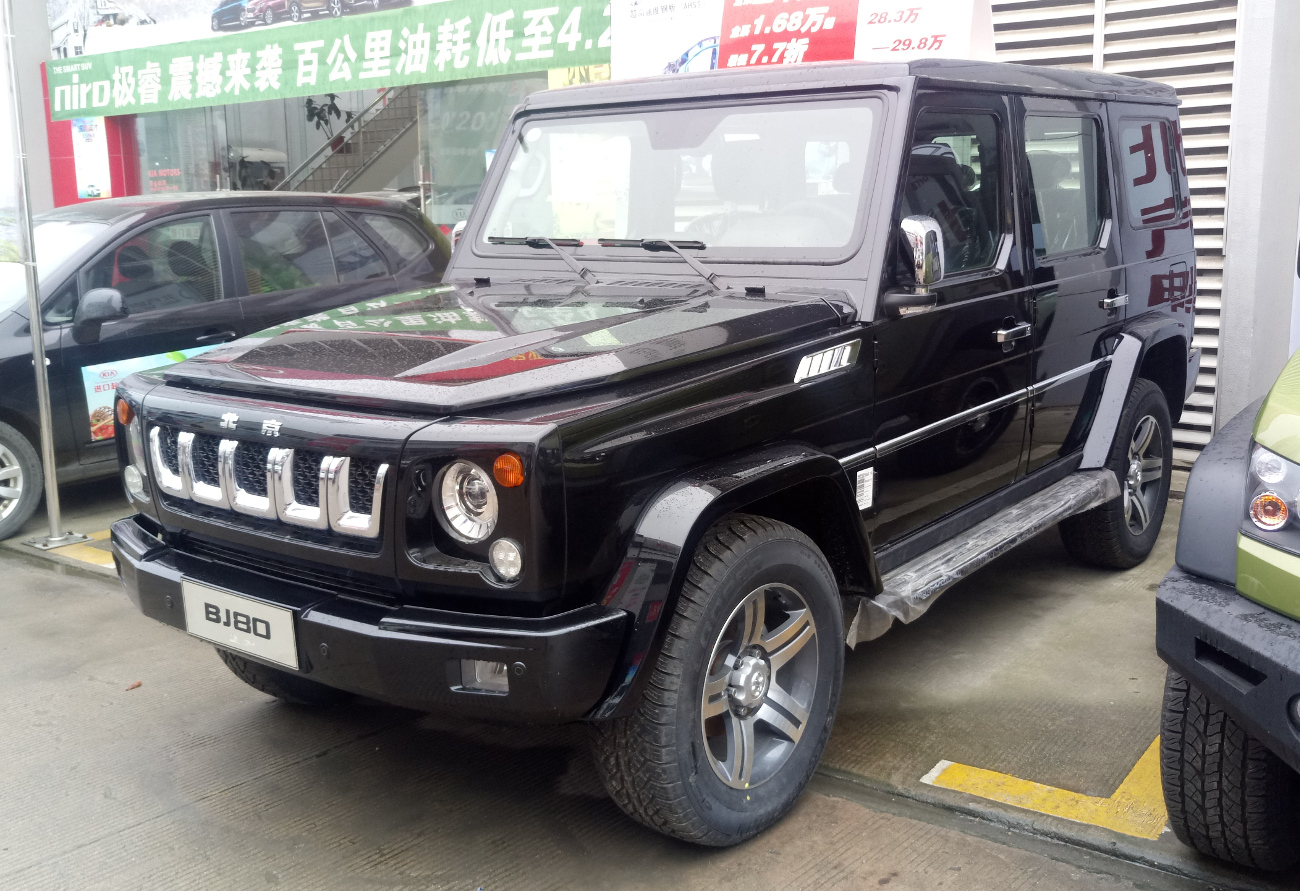 Beijing BJ80 photographed in Wuhan, Hubei province, China.